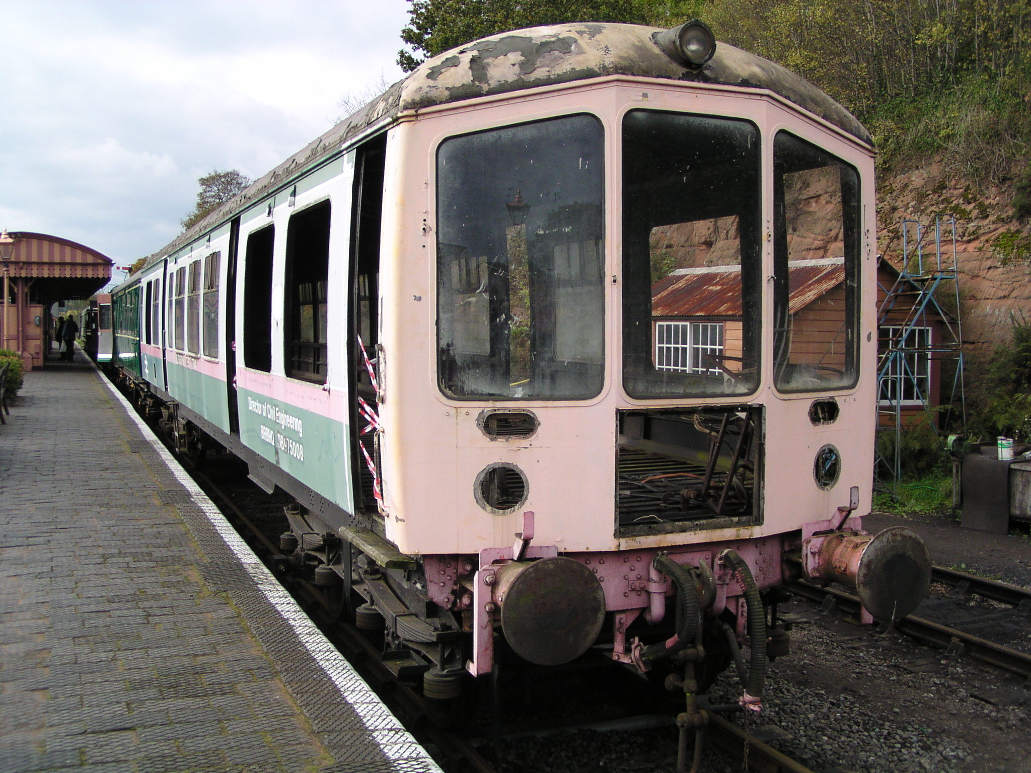 BR Derby Lightweight trailer no. 975008 (79618) on display at Bewdley on the Severn Valley Railway on 15th October 2004, as part of the Railcar 50 event. This vehicle has yet to be restored to original condition, and is preserved at the Midland Railway Centre.